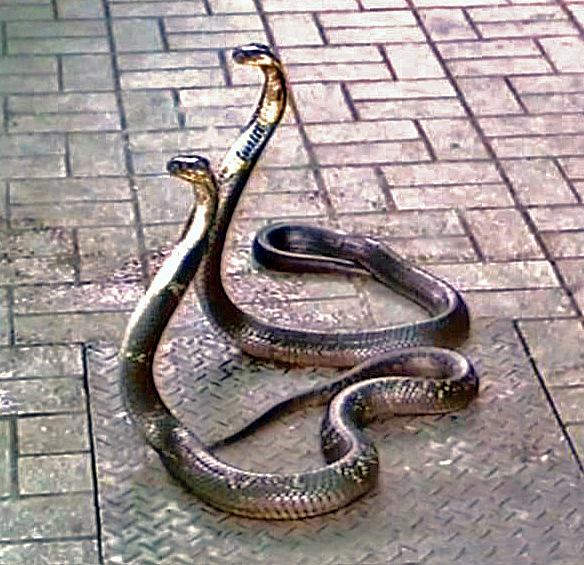 Naja kaouthia at the Snake Farm in Bangkok